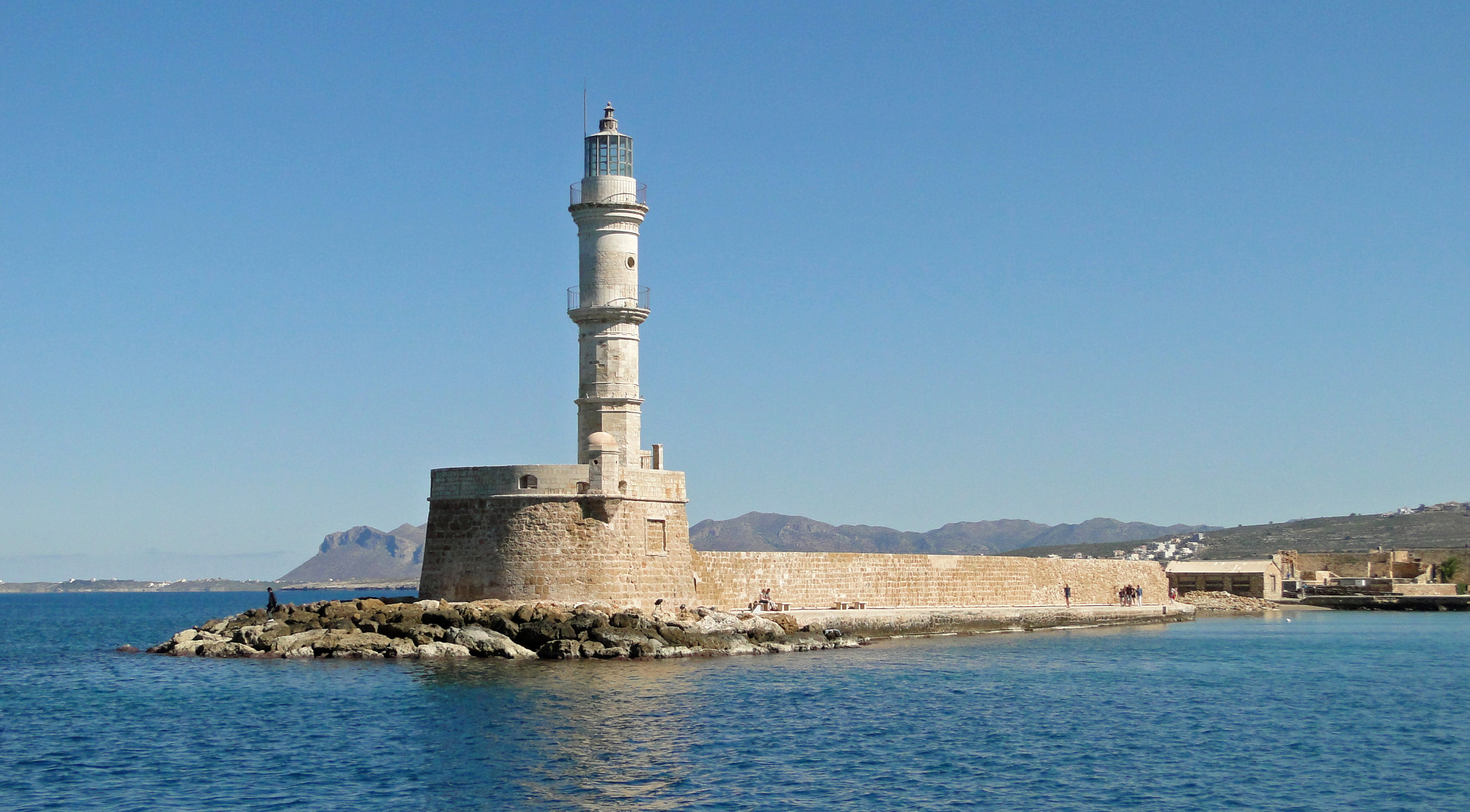 Chania lighthouse, Crete, Greece